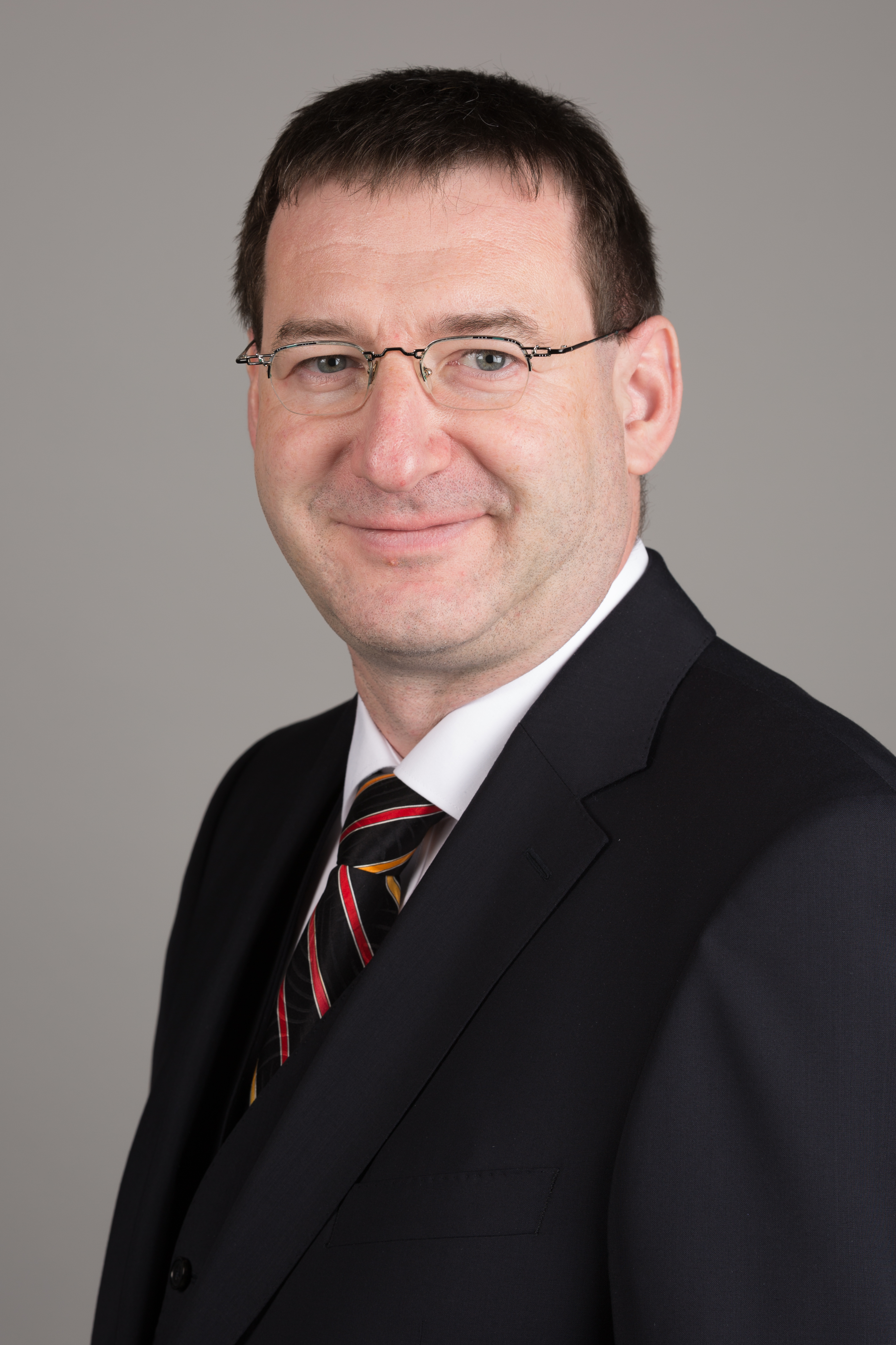 Jens Michael, CDU, Member of the Parliament of the Free State of Saxony